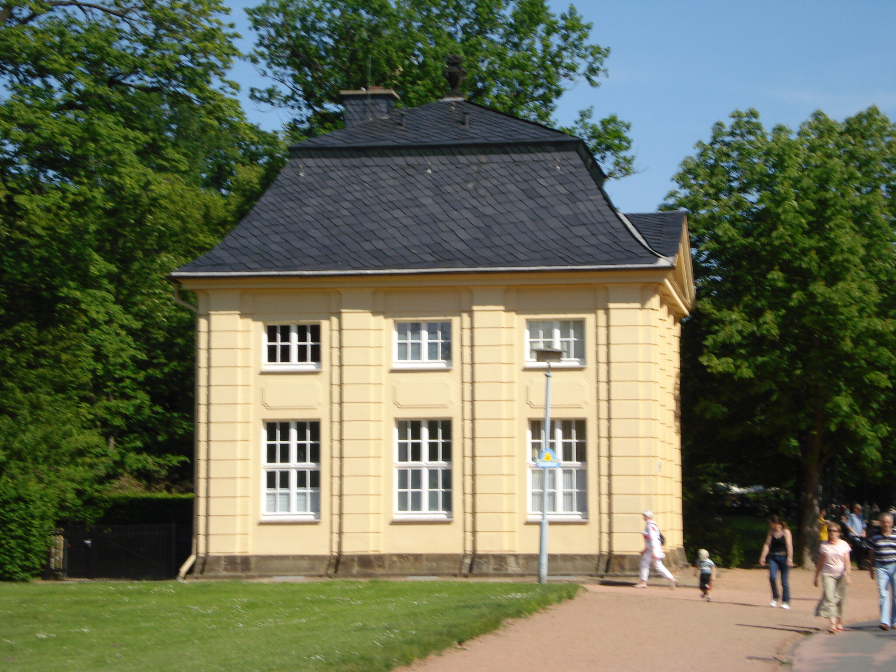 The area of the City Park Dresden (Großer Garten Dresden)